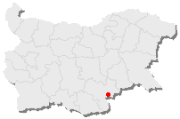 Map of Bulgaria, the red point is the position of Svilengrad.